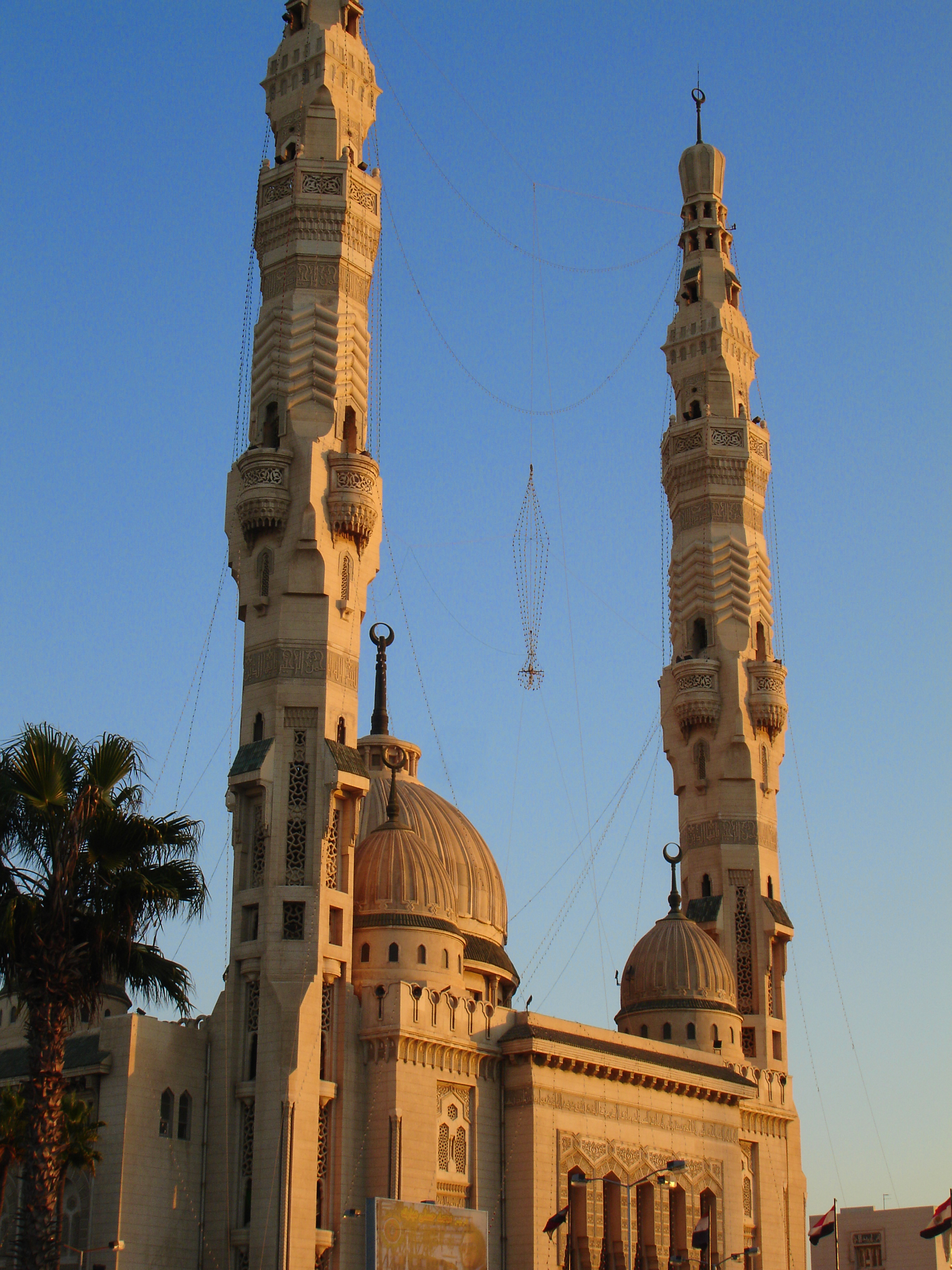 A mosque and minarets at sunset in Port Fuad, Egypt.